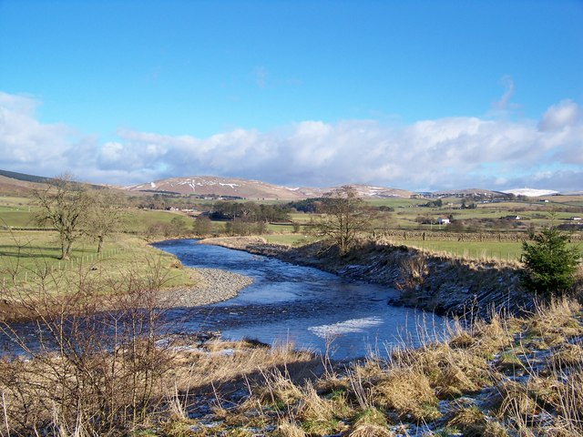 River Nith At Burnfoot The River Nith, west of Sanquhar.